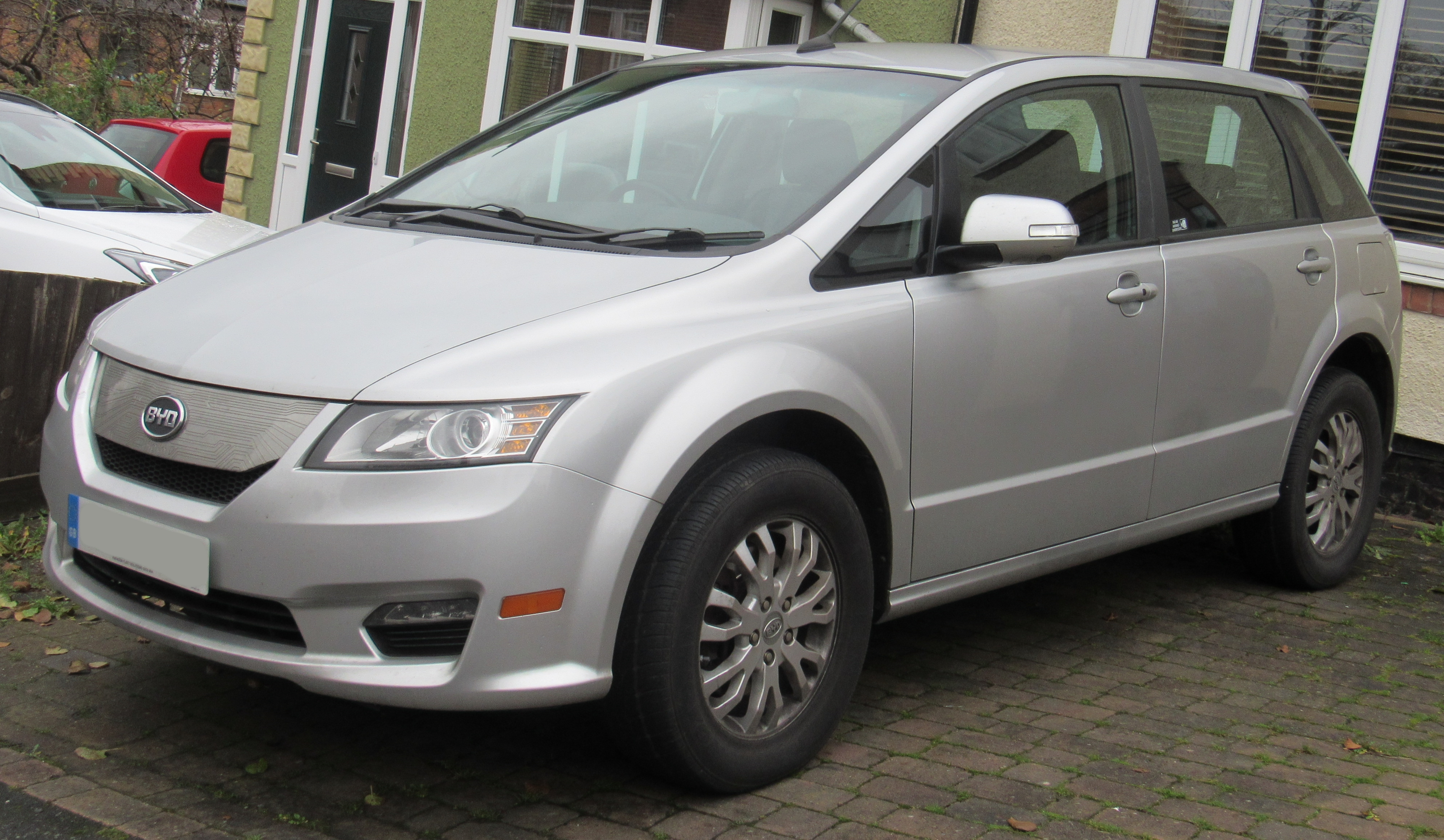 2014 BYD E6 Taken in Warwick